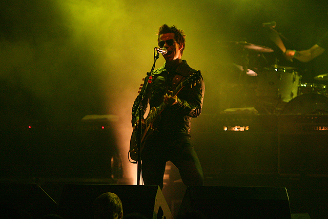 Kelly Jones of the Stereophonics